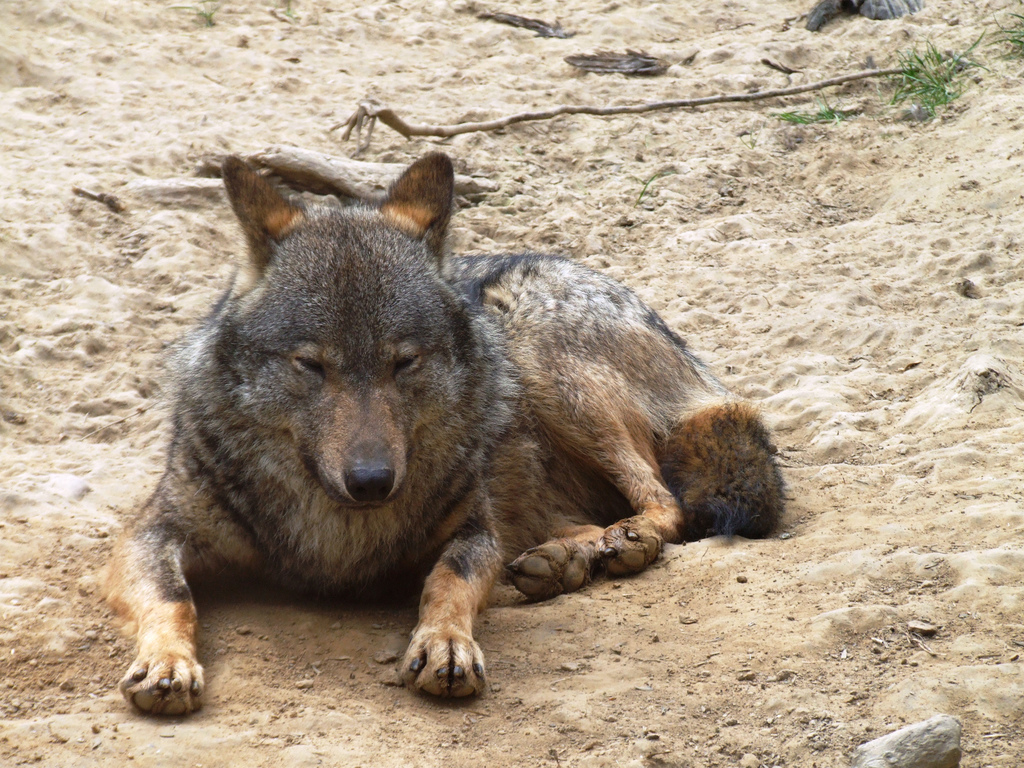 An Iberian wolf (Canis lupus signatus) in Kerkrade's Zoo (Netherlands).